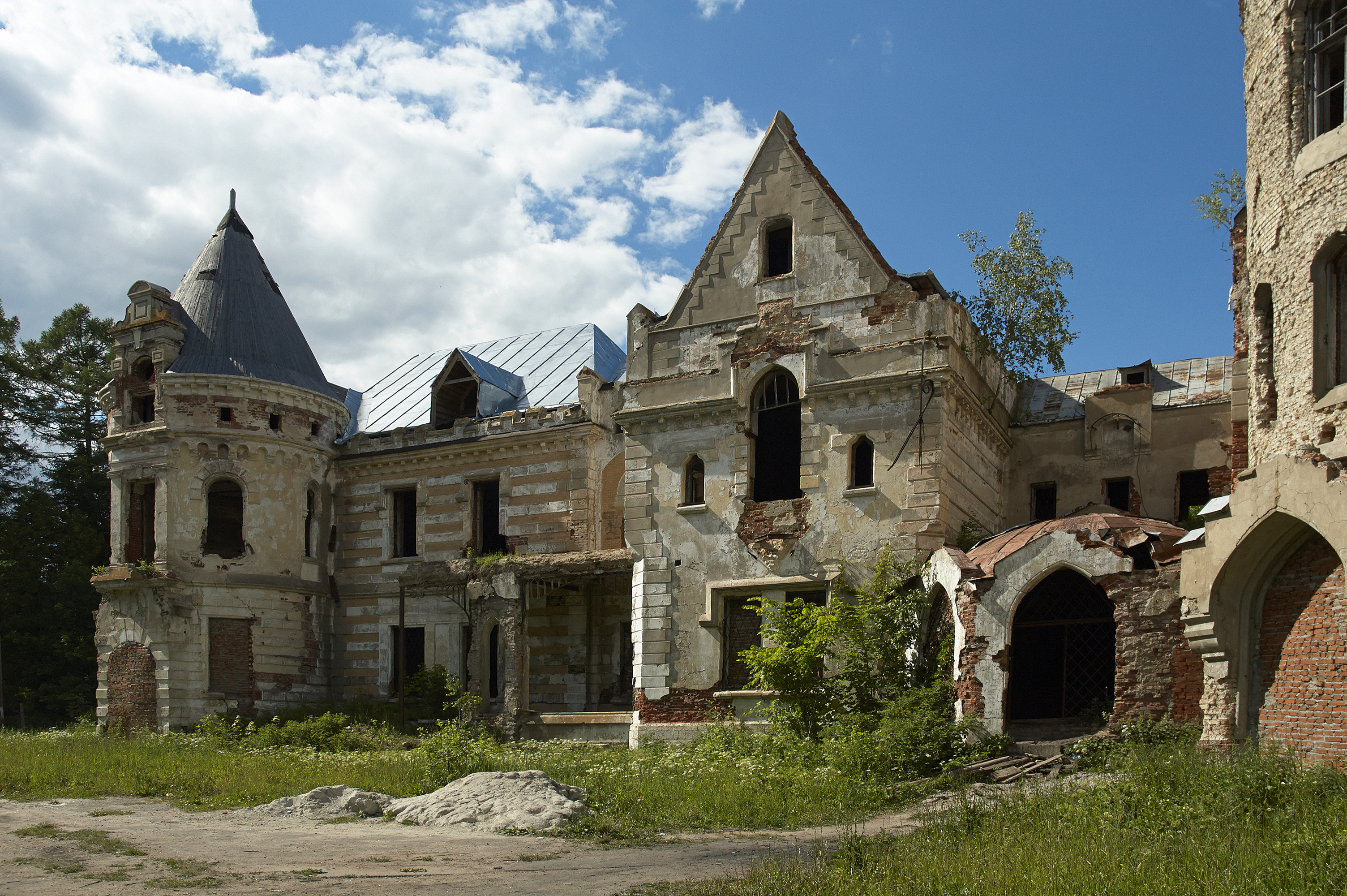 Khrapovitsky Castle.